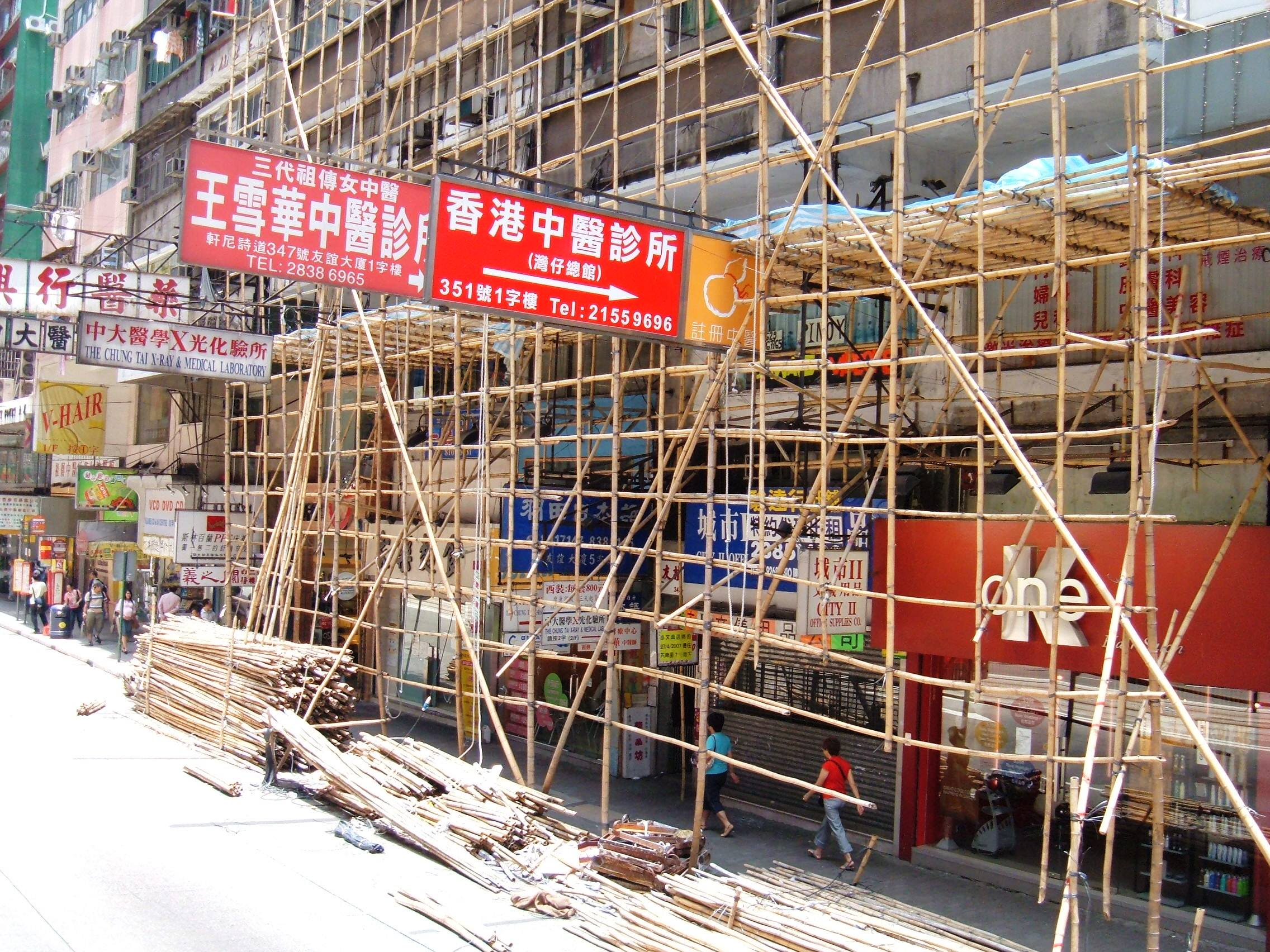 Bamboo scaffolding in use on a building in Wan Chai, Hong Kong.